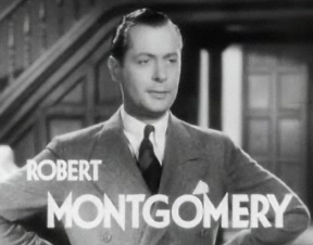 Cropped screenshot of Robert Montgomery from the trailer for the film Biography of a Bachelor Girl